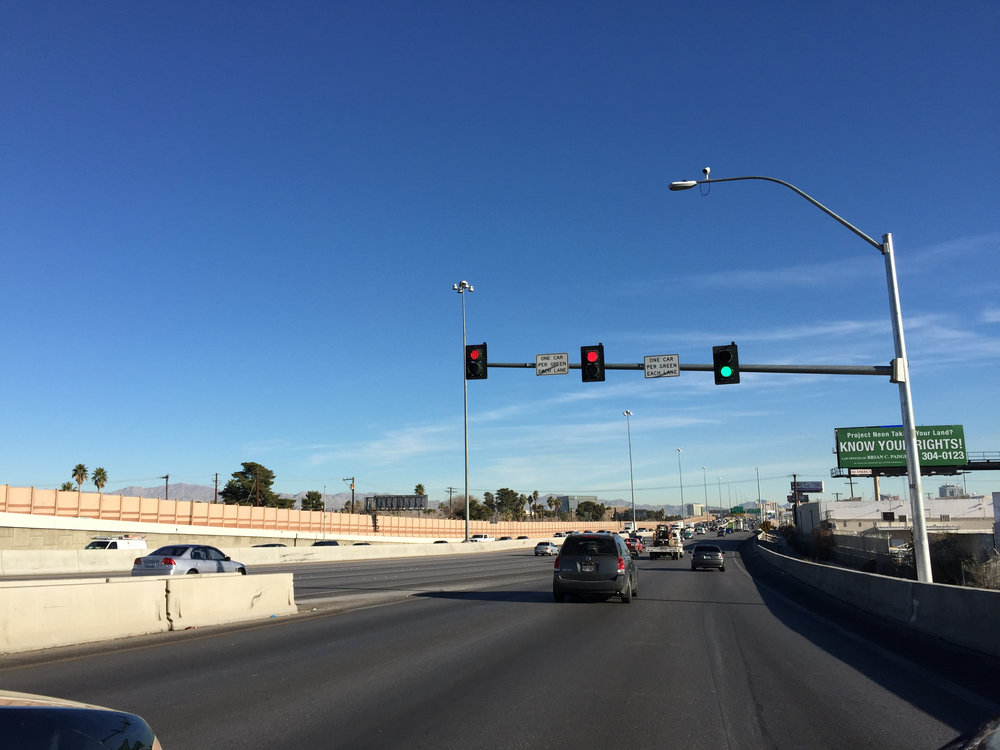 Ramp meter on the ramp from Sahara Avenue to northbound Interstate 15 in Las Vegas, Nevada